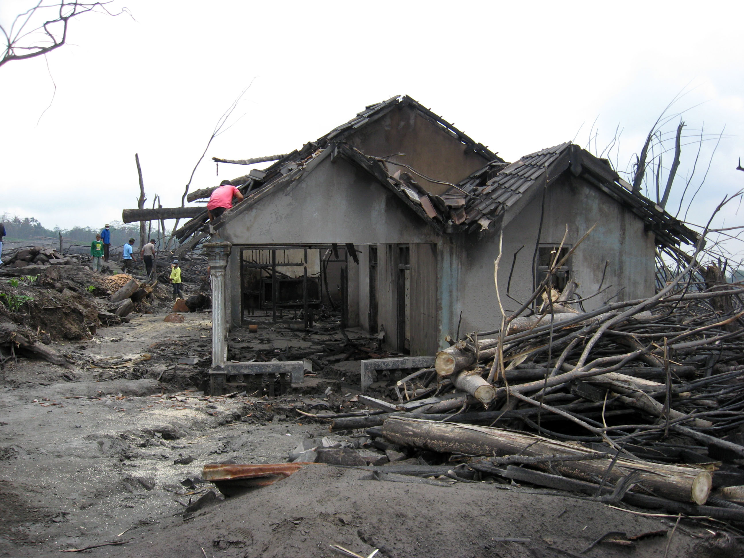 A house destroyed by the pyroclastic flows that occurred during the 2010 Eruptions of Mount Merapi. Located in Cangkringan, Sleman, Daerah Istimewa Yogyakarta, Indonesia.